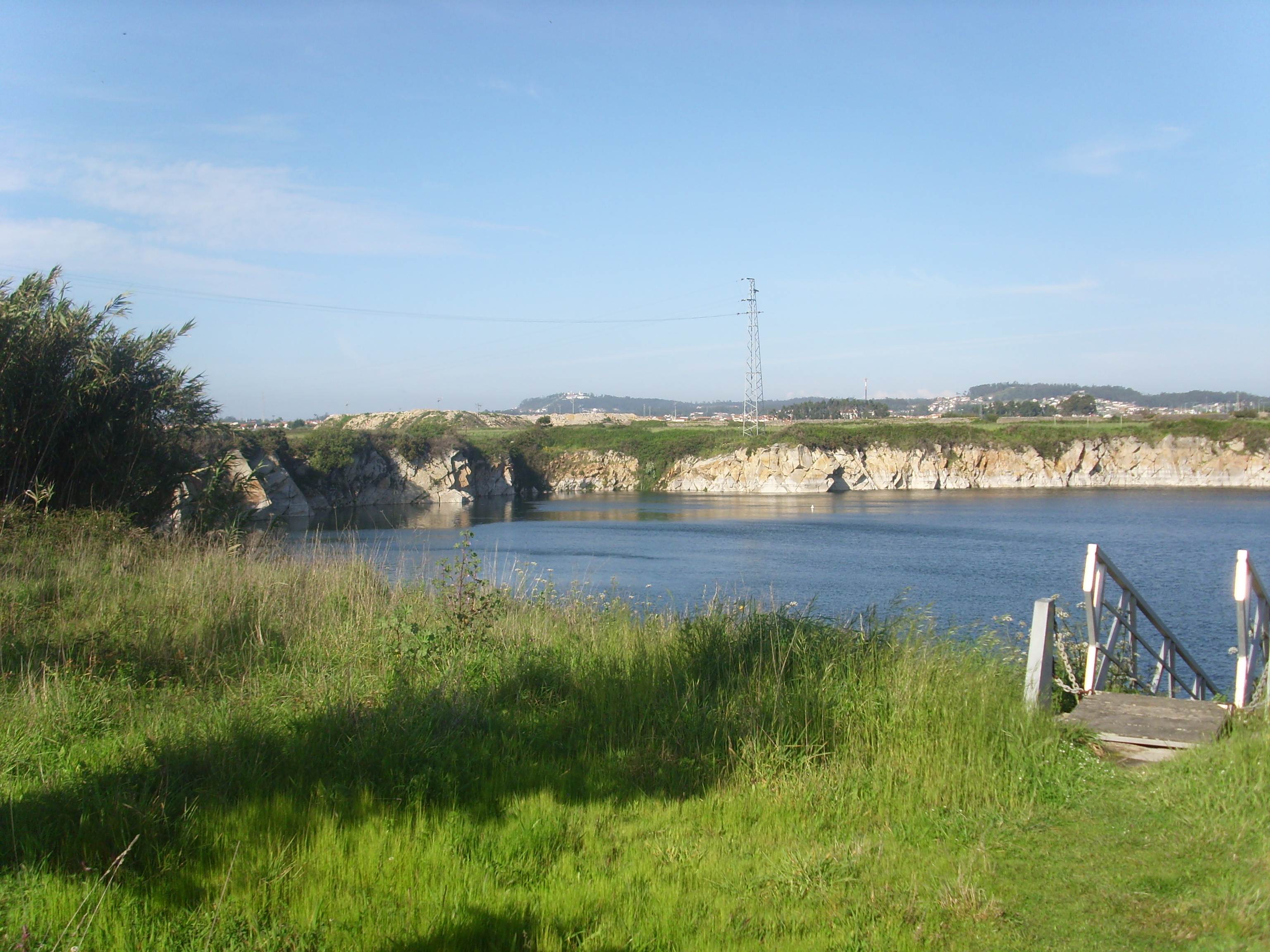 Pedreira Lake - East view